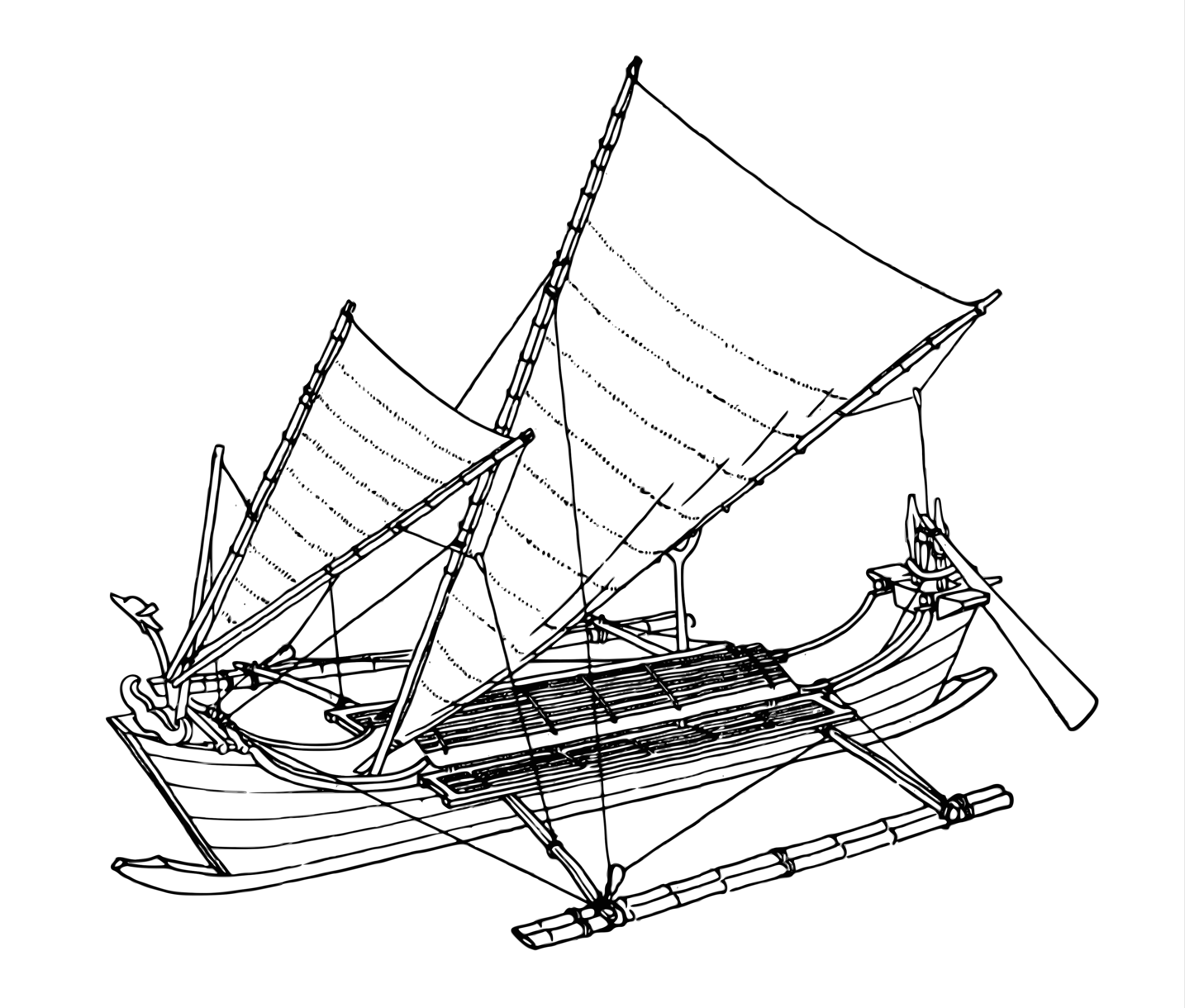 A vector drawing of a paduwang of Madura. Drawn from a model in National Museum, Leiden.